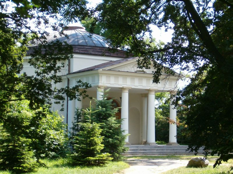 Pantheon in the gardens of Dobrzyca Palace, Poland